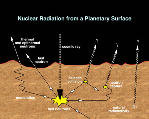 Nuclear Radiation from a planetary surface.